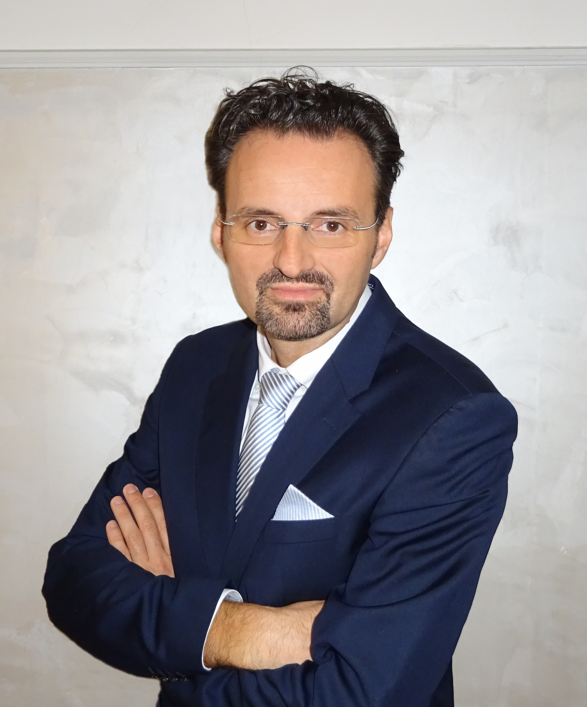 Slika dr Vladimir Kojovic